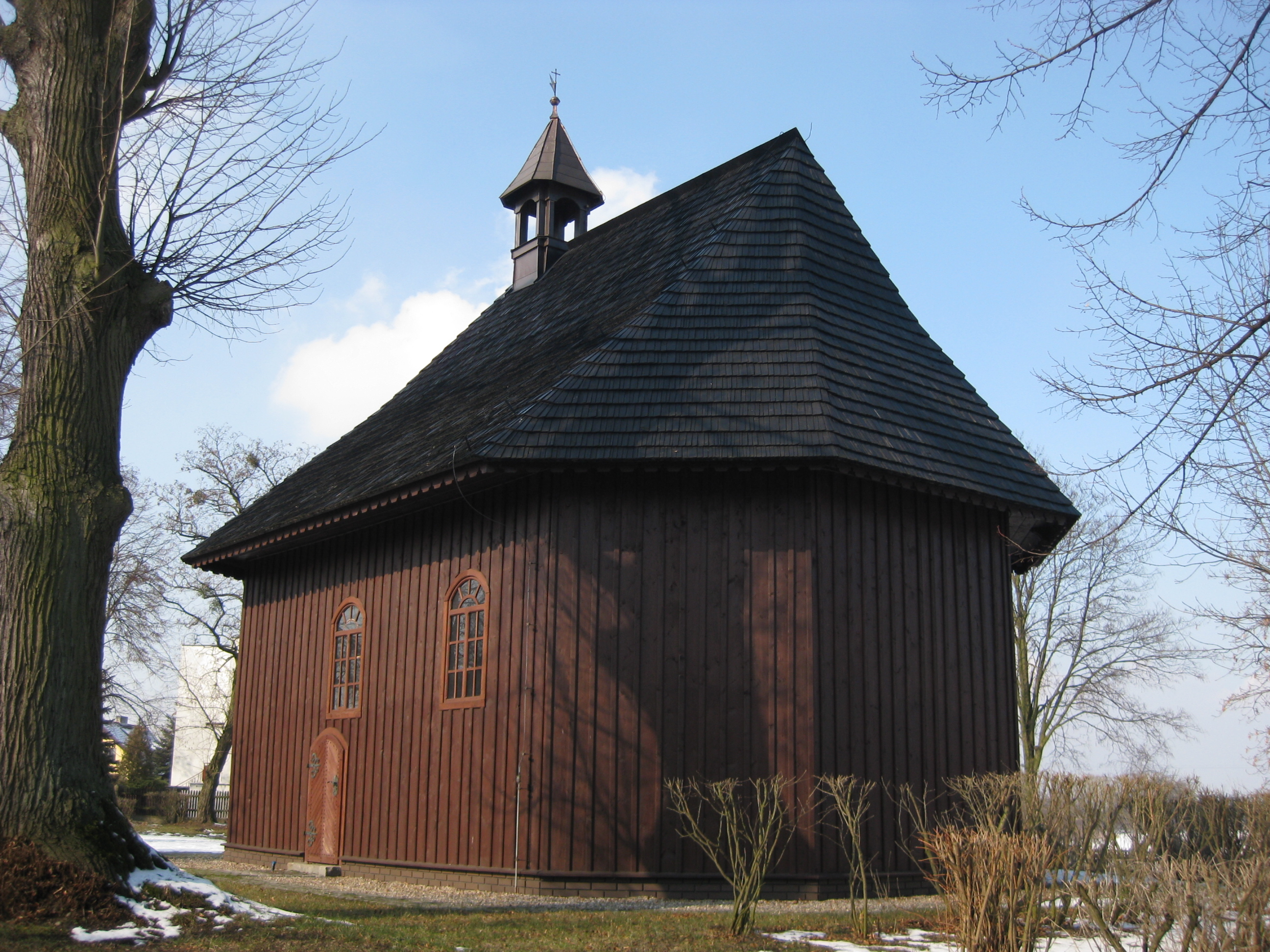 Church of the Sant Cross - view from the east side